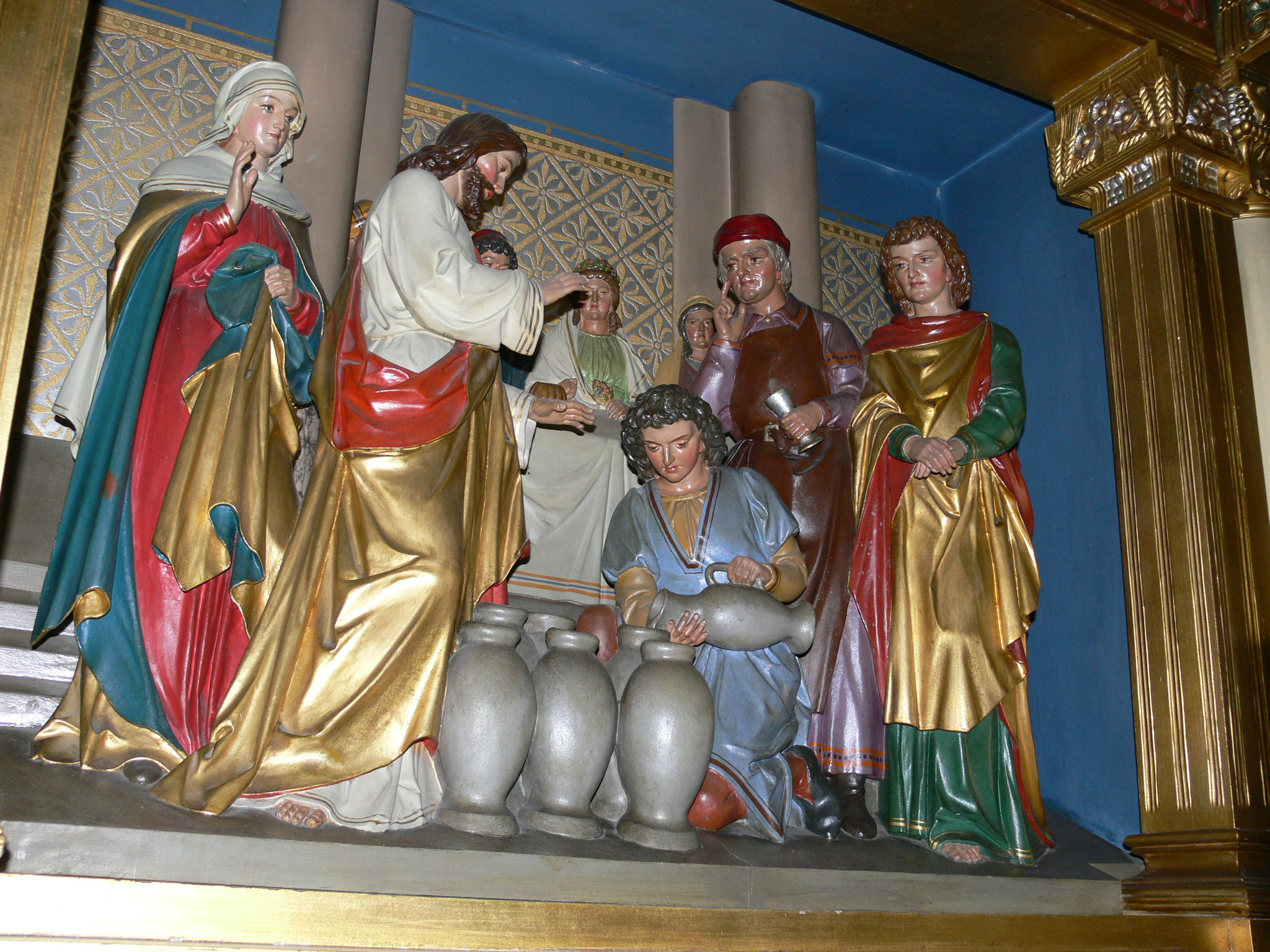 Pfarrkirche St. Martin, Hundersingen, Hochaltar von Theodor Schnell d. J., 1906, Detail: Hochzeit zu Kana Theodor Schnell the Younger (1870–1938) DescriptionGerman sculptorDate of birth/death8 May 187025 February 1938Location of birth/deathRavensburg, GermanyRavensburgWork locationRavensburg, MünchenAuthority control : Q2418268 VIAF: 90982111 GND: 138723869